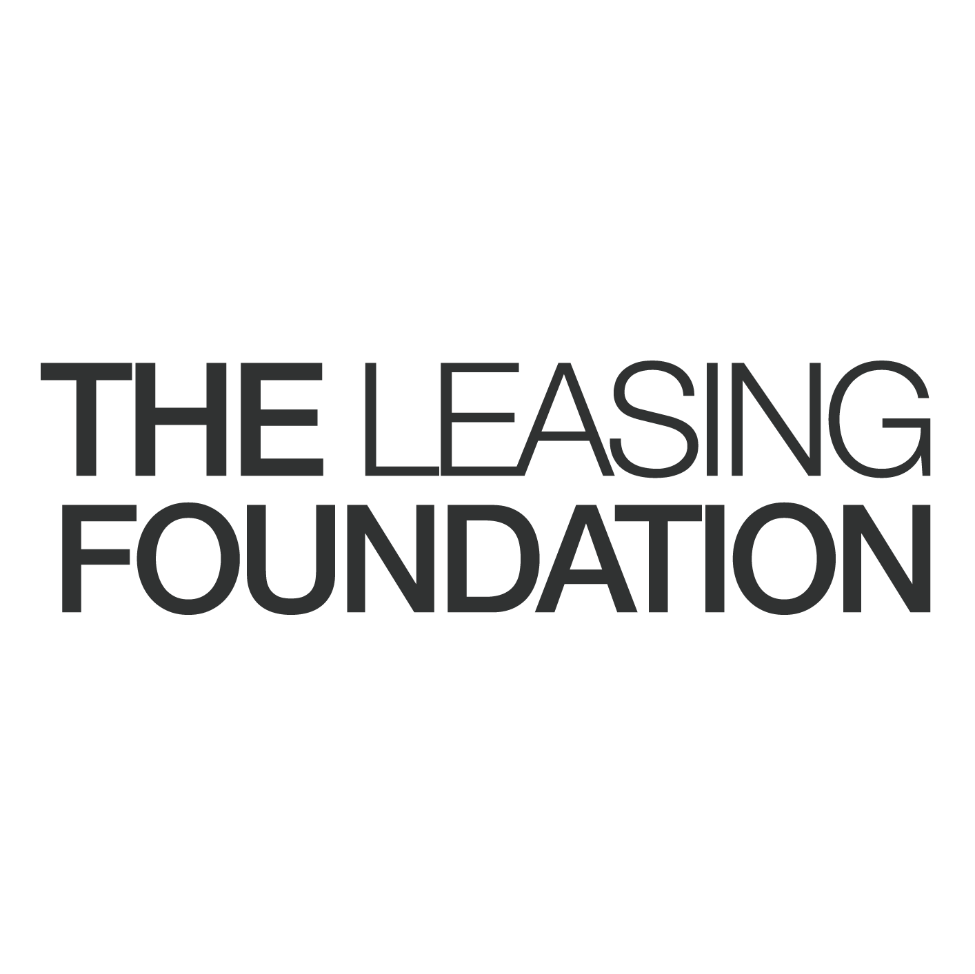 Leasing Foundation logo